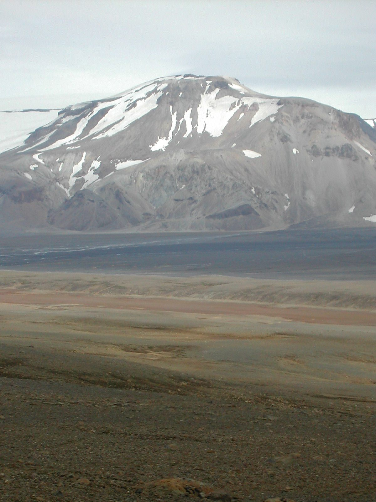 The side of a glacier seen from Kaldidalur track, Iceland.